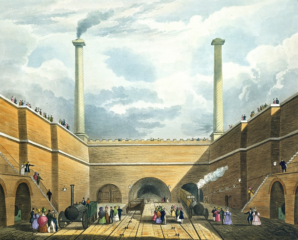 The original Edge Hill station opened in 1830 by the Liverpool and Manchester Railway in Liverpool, looking west. The station was situated in a deep cutting. The double tunnel in the centre of the picture (the Wapping tunnel) goes down to the Wapping dock on the waterfront. The tunnel to the right goes up to the original passenger terminus at Crown street. The entrance to the left went only to a store, created for symmetry; later a double tunnel curving up to Crown Street over the Wapping tunnel was created here in the 1840s. The two large chimneys, nicknamed the "Pillars of Hercules", took the smoke from two stationary engines that were used to haul wagons back up from the docks in a cable railway arrangement, as the incline was too steep for the earliest locomotives. Between the two central tracks can be seen the endless rope that the wagons were attached to, to achieve this.